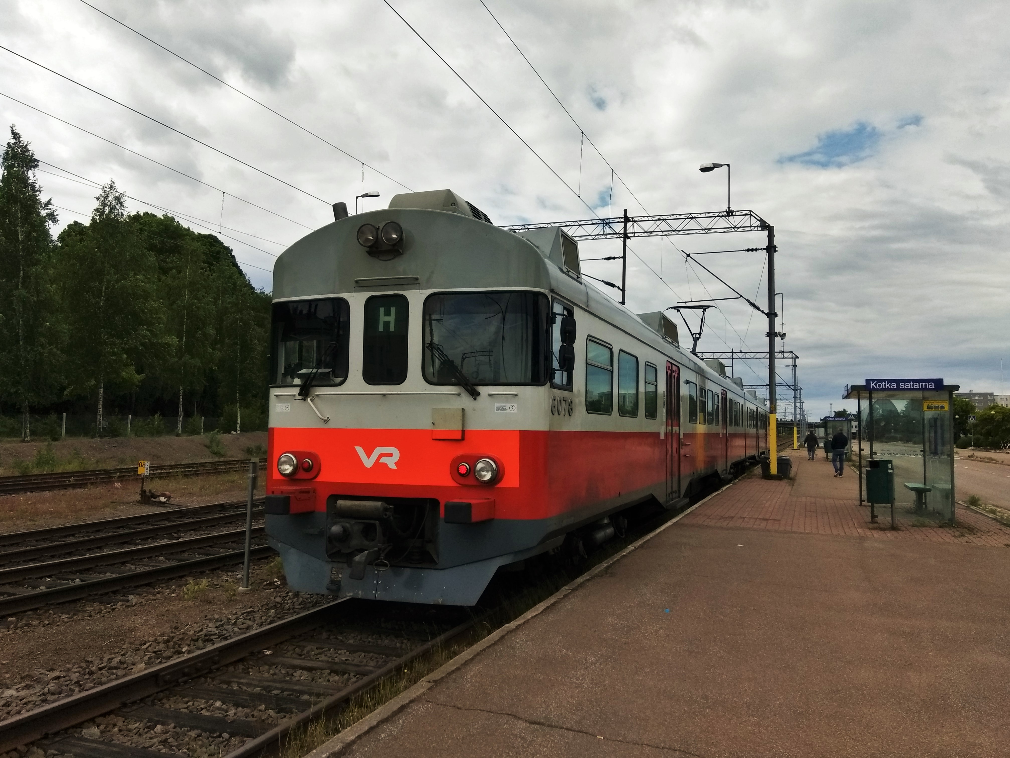 The local commuter train, type Sm2, Route Kouvola - Kotka Satama, on the station Kotka Satama.